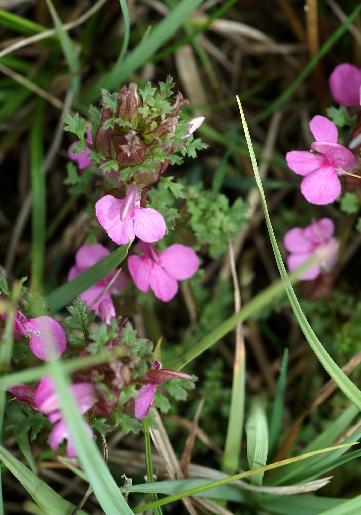 Pedicularis sylvatica